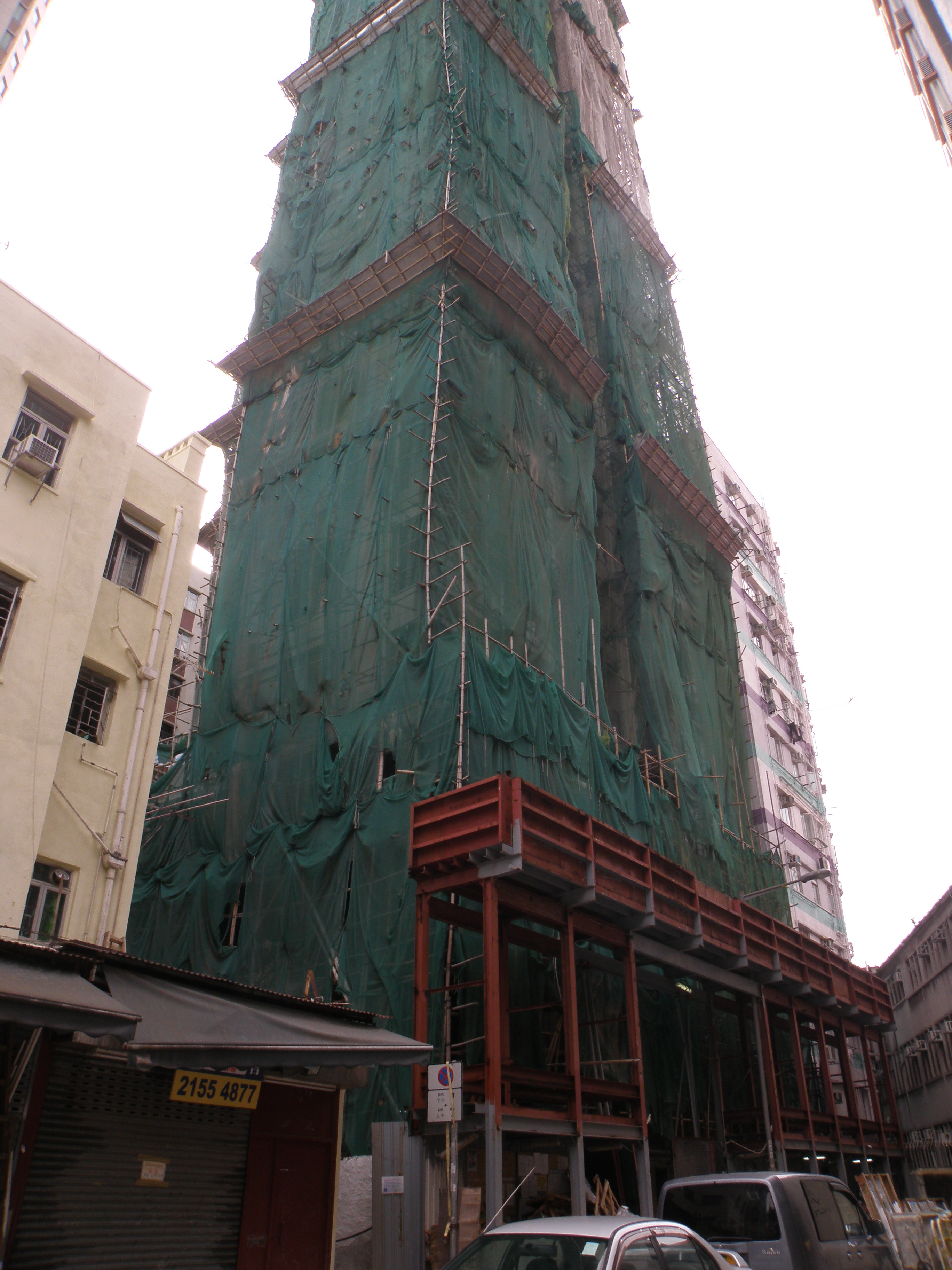 Sevilla Crest in Sham Shui Po, Hong Kong.